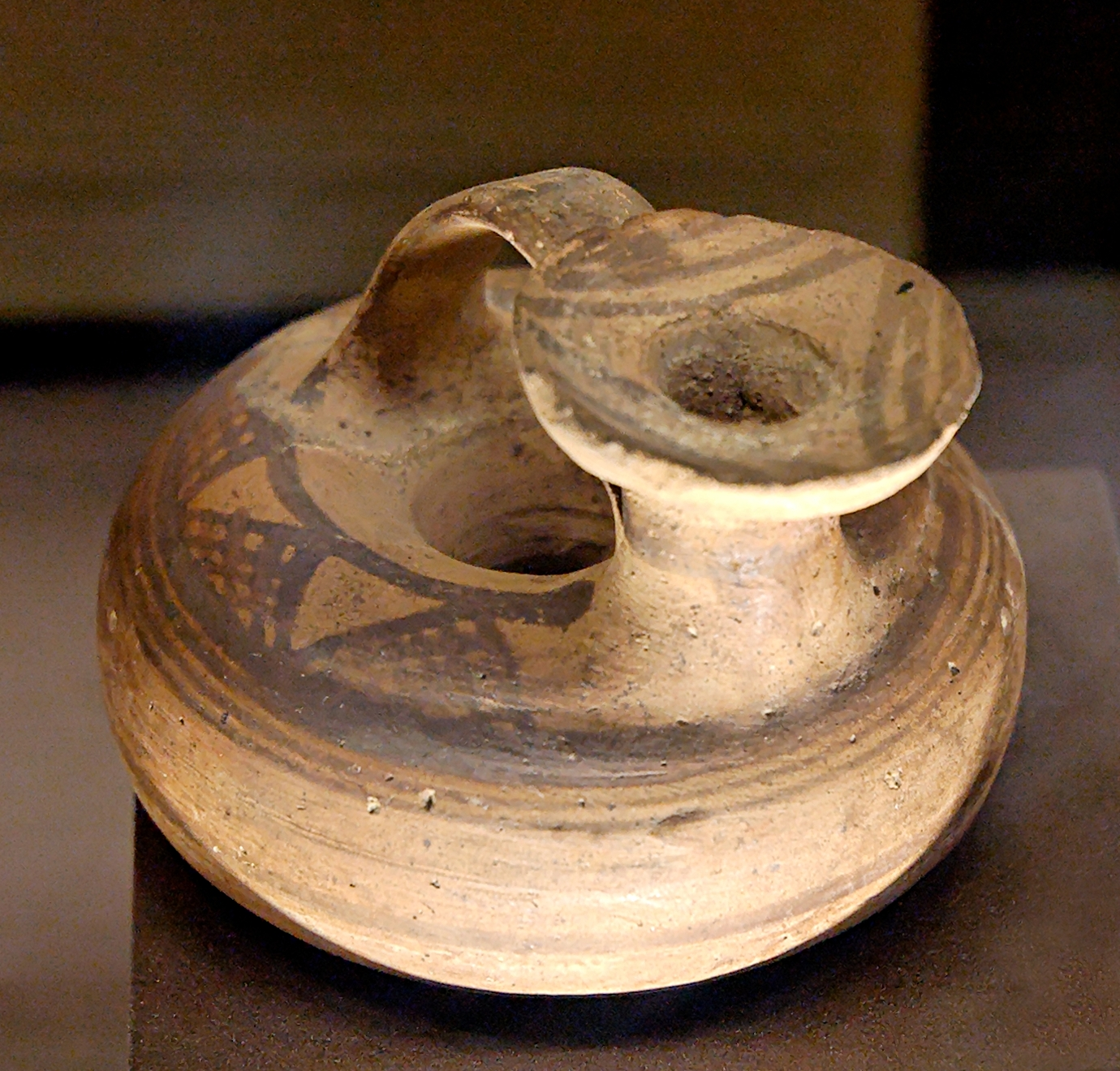 Askos, ca. 650–625 BC. Found in Kameiros, Rhodes.